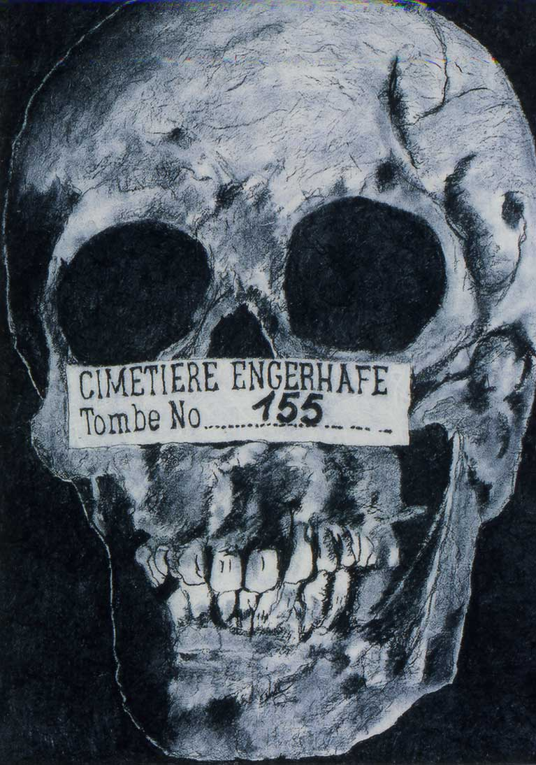 Painting of KZ Engerhafe